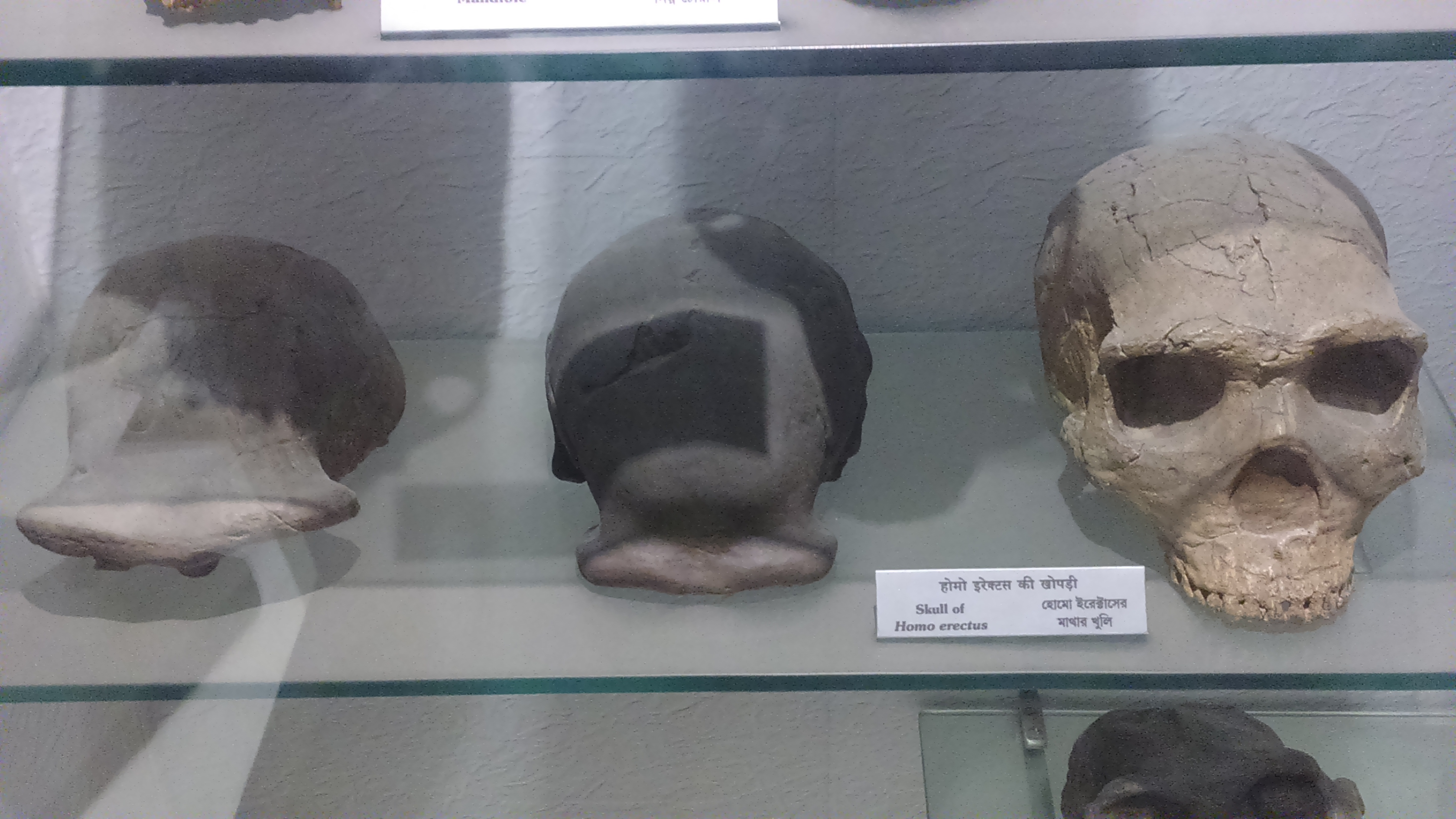 Skull of Homo erectus, Indian Museum